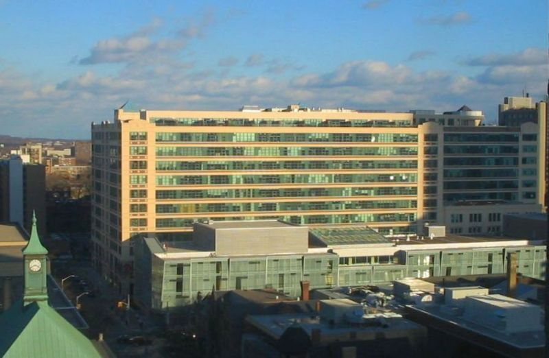 Author David Han, free license.